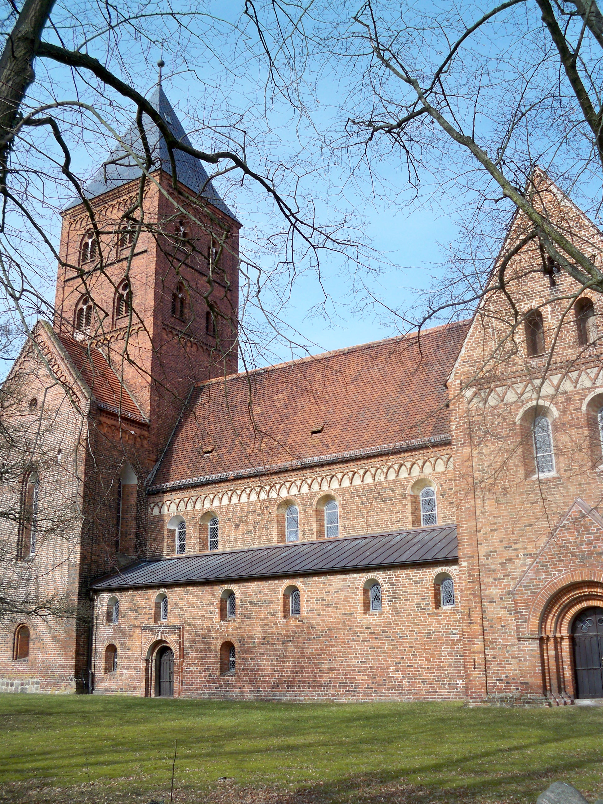 Diesdorf, Saxony-Anhalt, church, from south